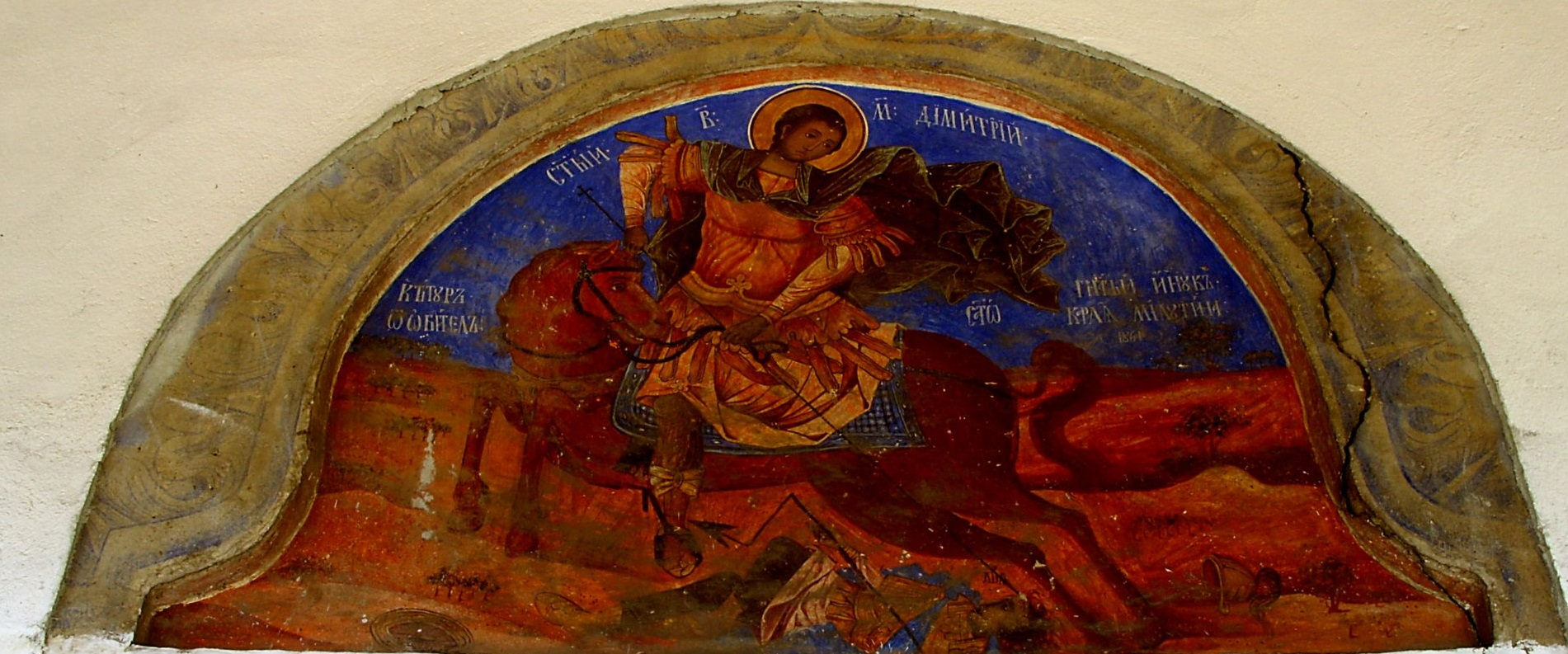 A fresco over the entrance of the church "Saint Dimitar" in village Makotsevo, Bulgaria